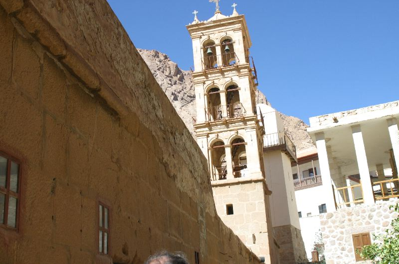 Basilica of S. Transfiguration of Our Lord, at Saint Catherine's Monastery, Egypt.